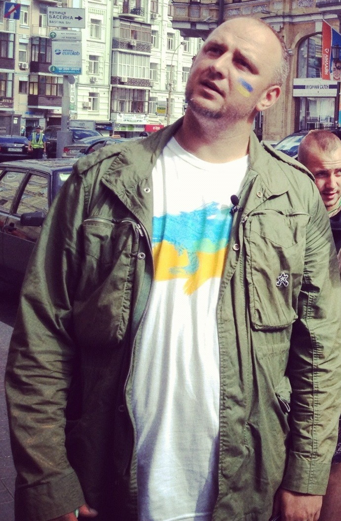 Potap in Kiev